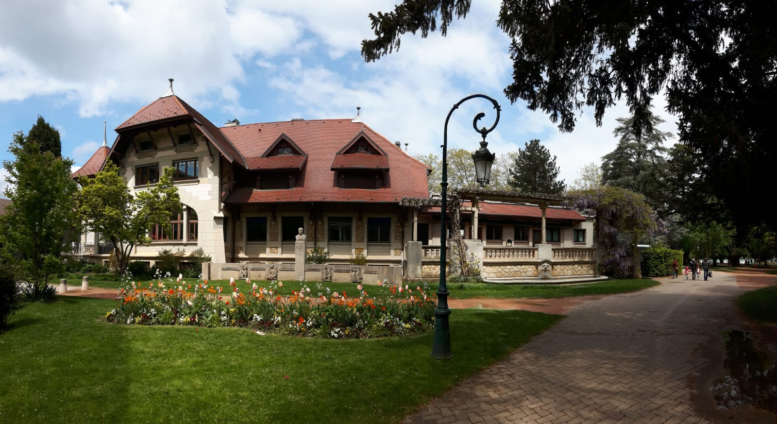 Maison de l'Enfance - Annecy